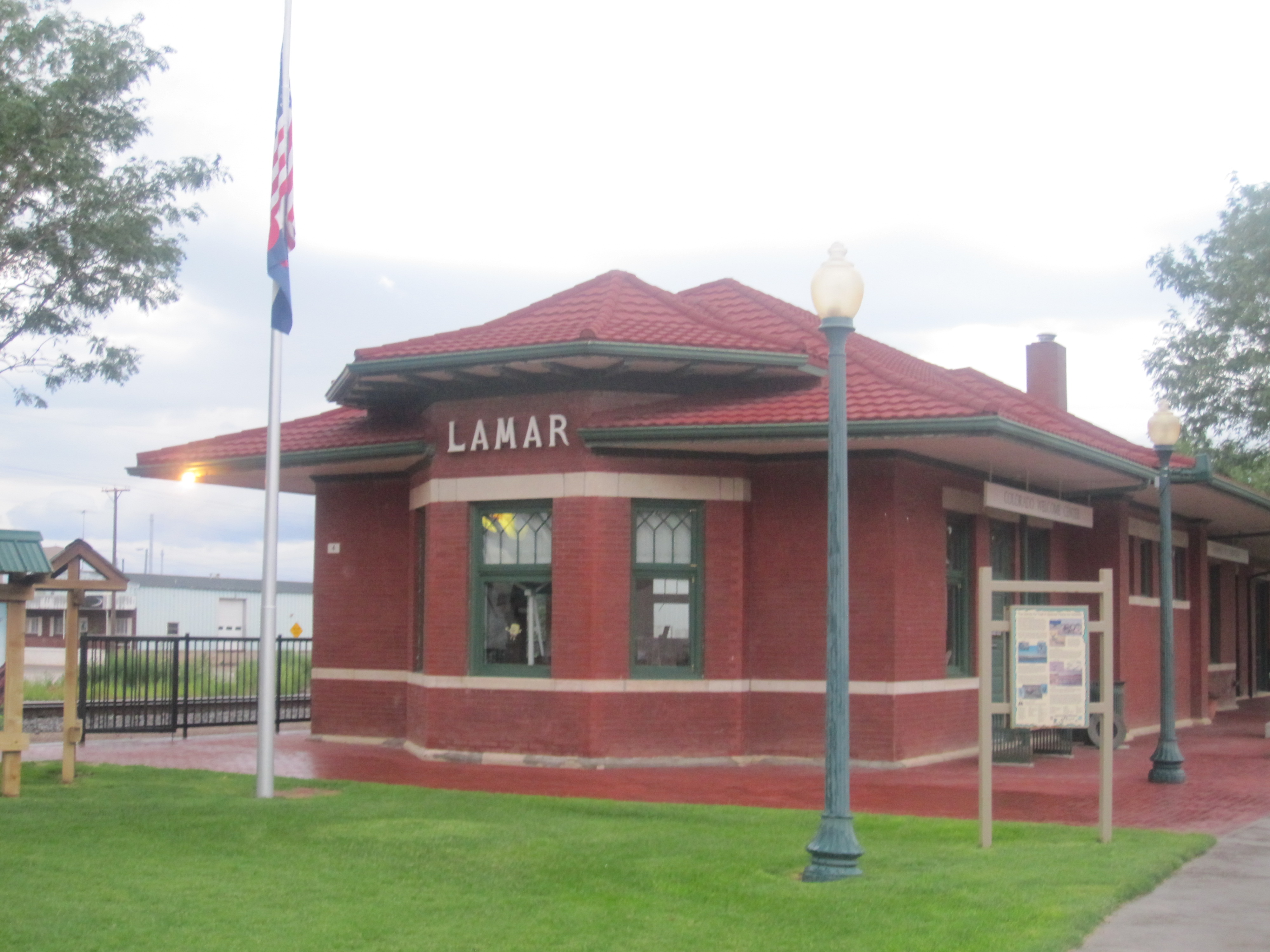 I took photo in Lamar, CO, with Canon camera.